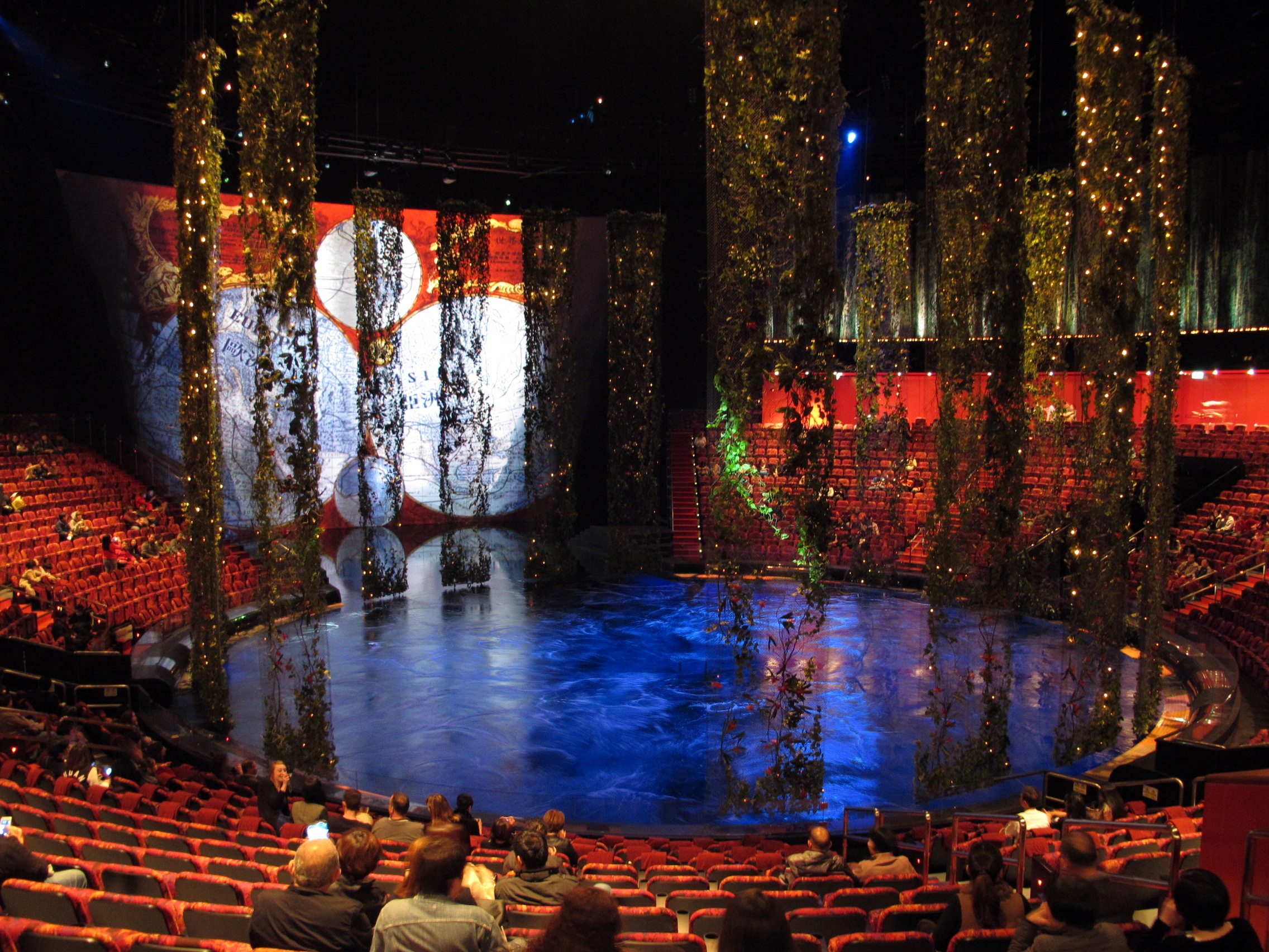 The House of Dancing Water interior.